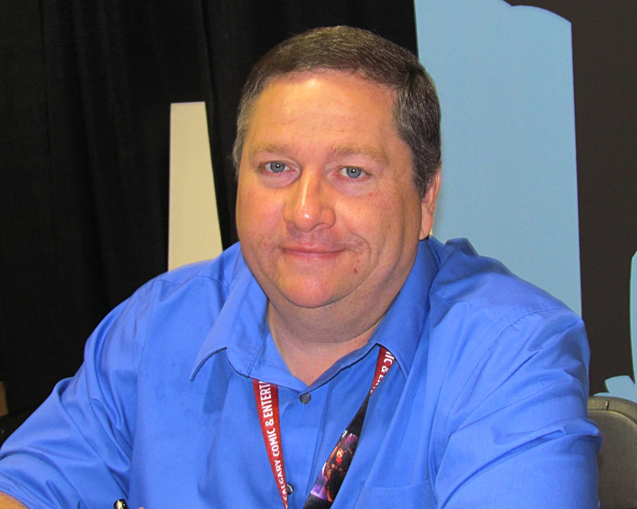 Phil Hester, born 1966 in Iowa, is an American comic book artist and writer. Photo taken at the Calgary Comic and Entertainment Expo, BMO Centre, Calgary, Alberta, Canada.